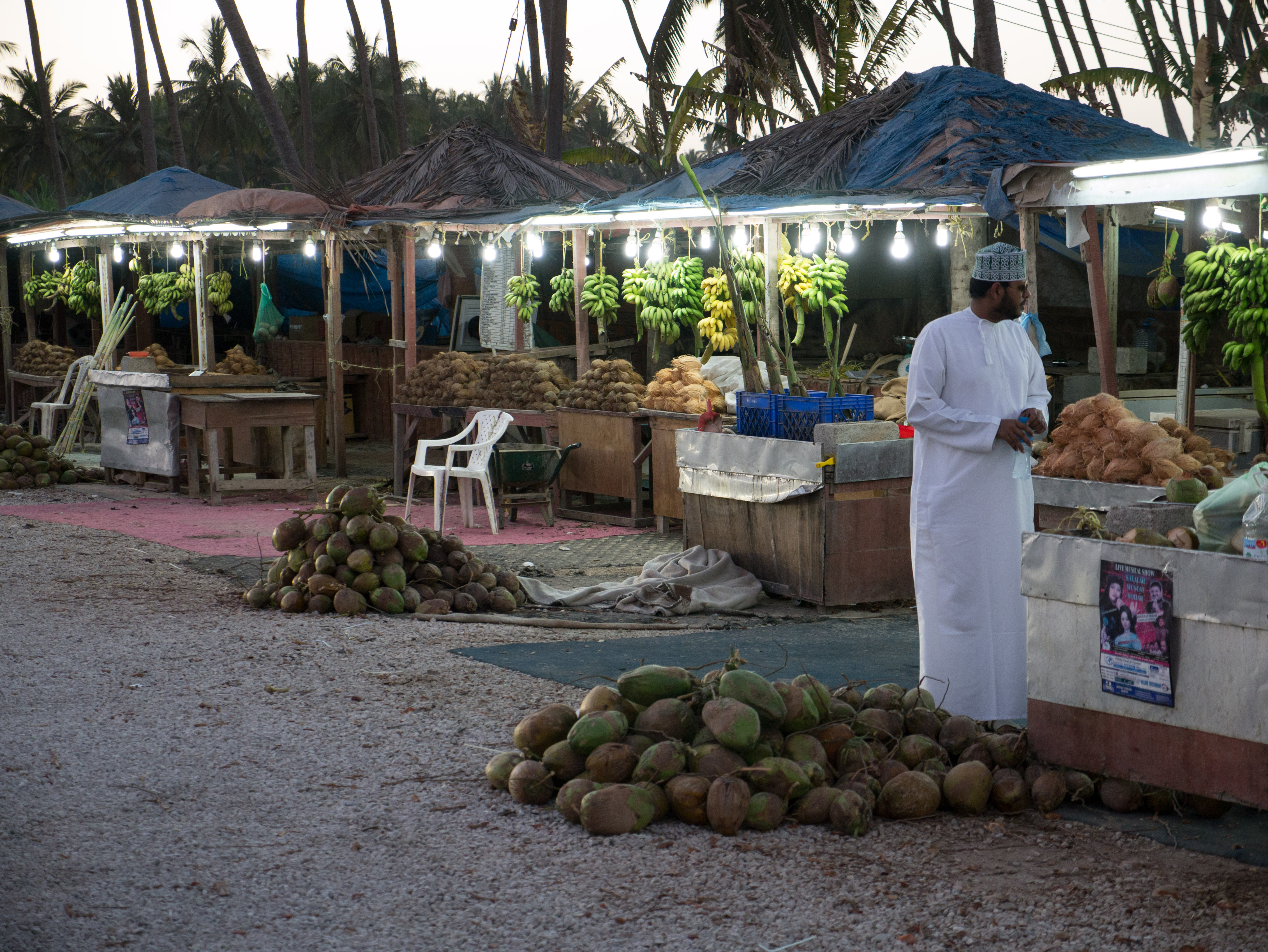 Roadside fruit stand in Salalah, Dhofar.